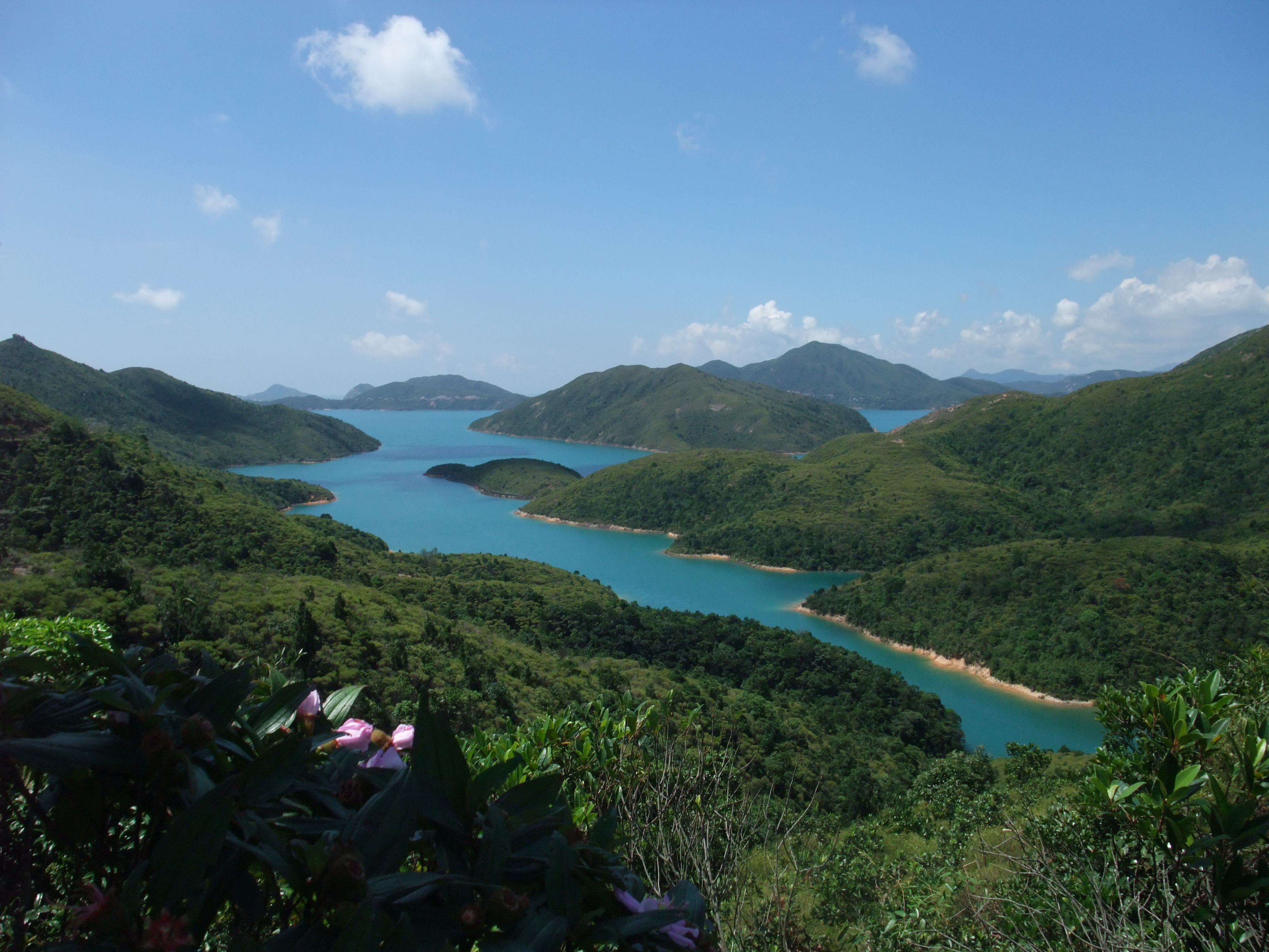 Photo of High Island Reservoir